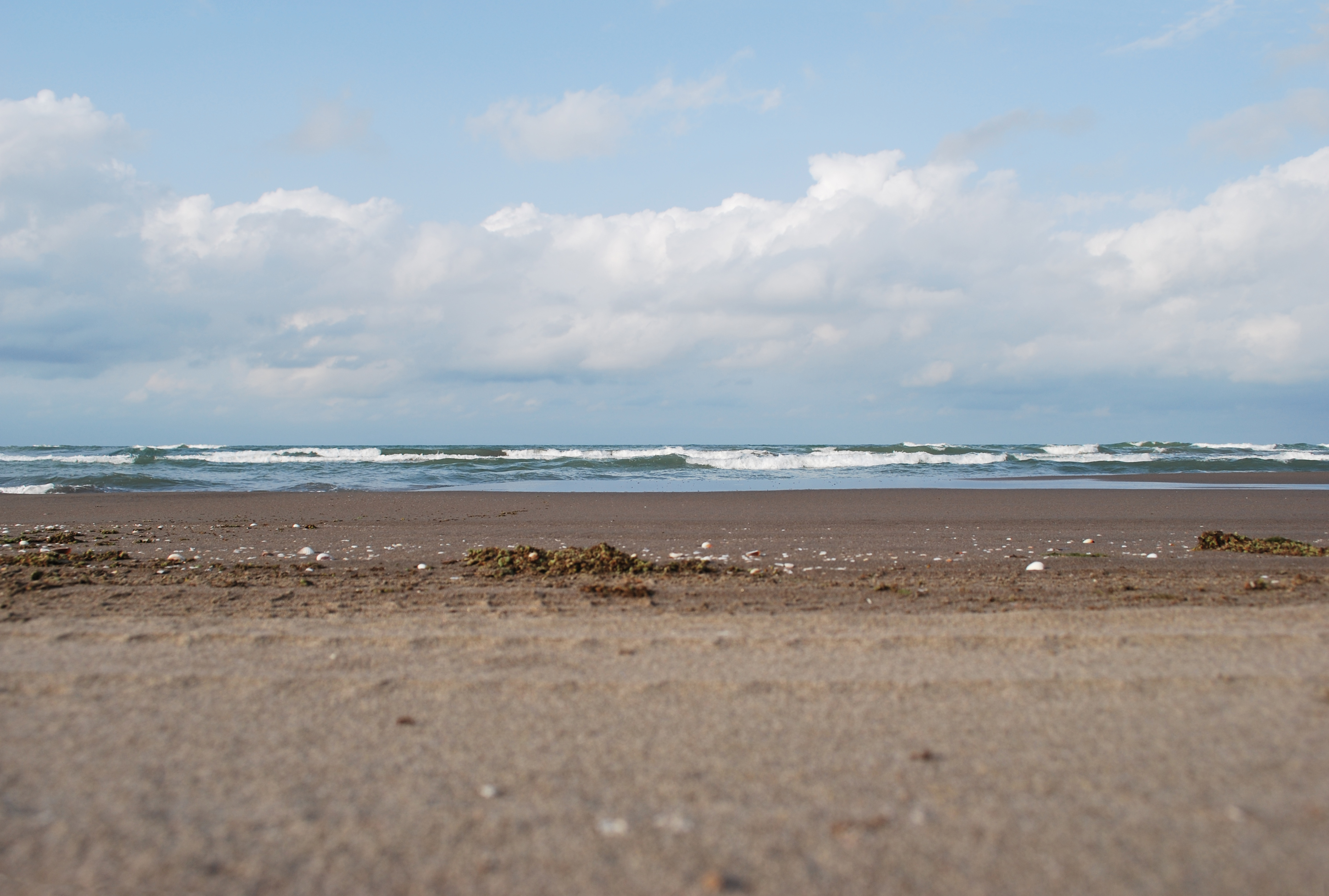 Mazandaran Sea